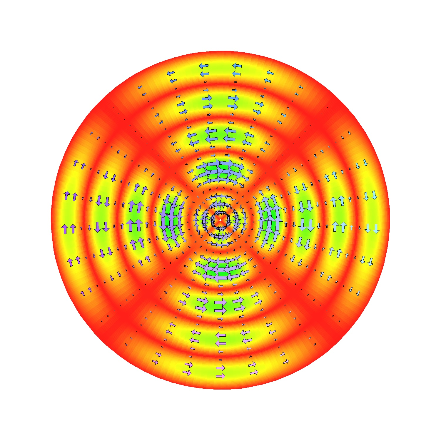 Plot of E and H fields on the TEnl mode defined by n and l.